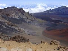 Crater of Haleakala volcano. In Haleakala National Park, on Maui. Photo by LDC, released to the public domain. Category:Volcanoes of Maui Nui